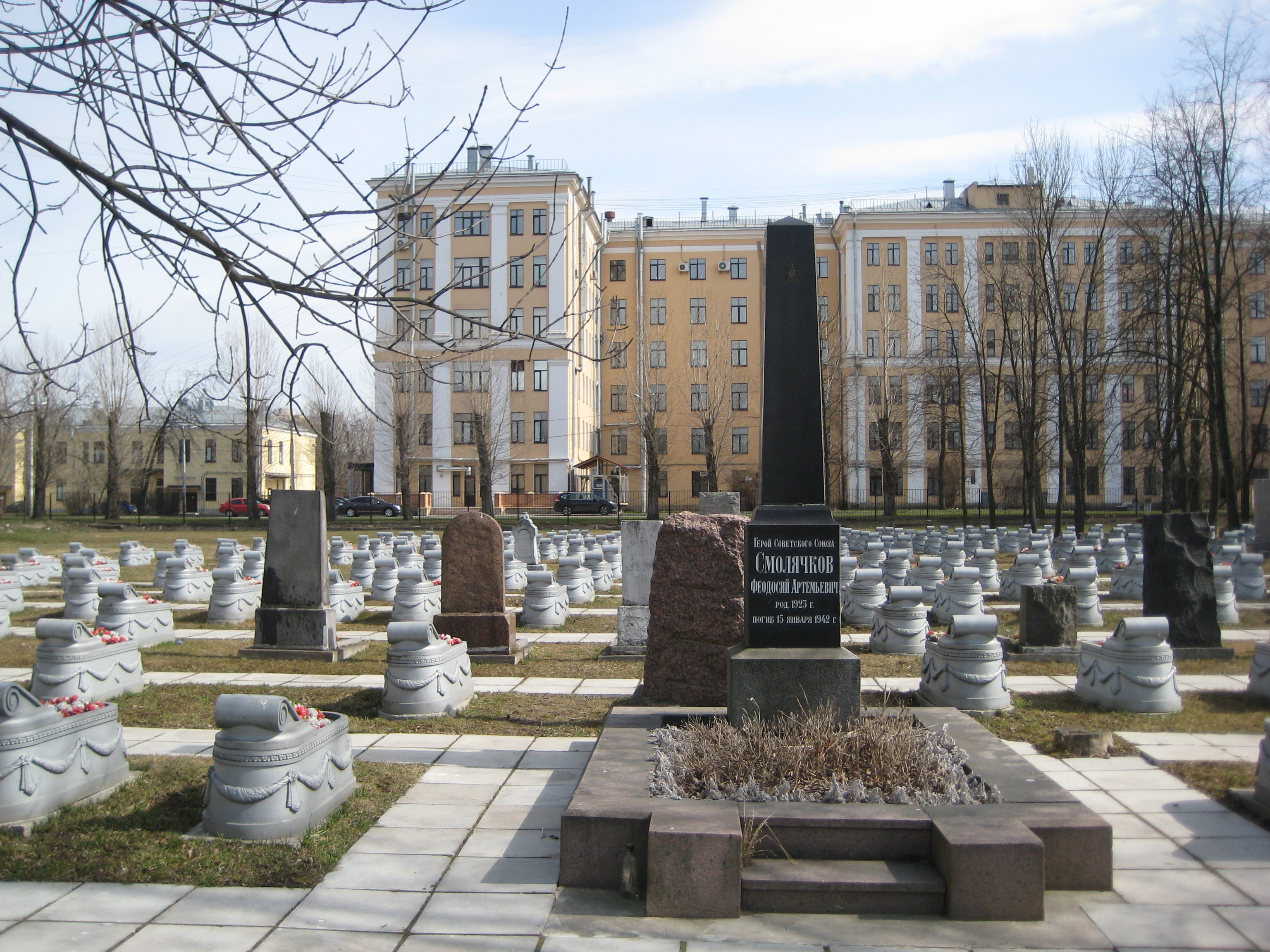 St. Petersburg. Chesme Memorial Cemetery. Tomb of the Hero of the Soviet Union Smolyachkova F.